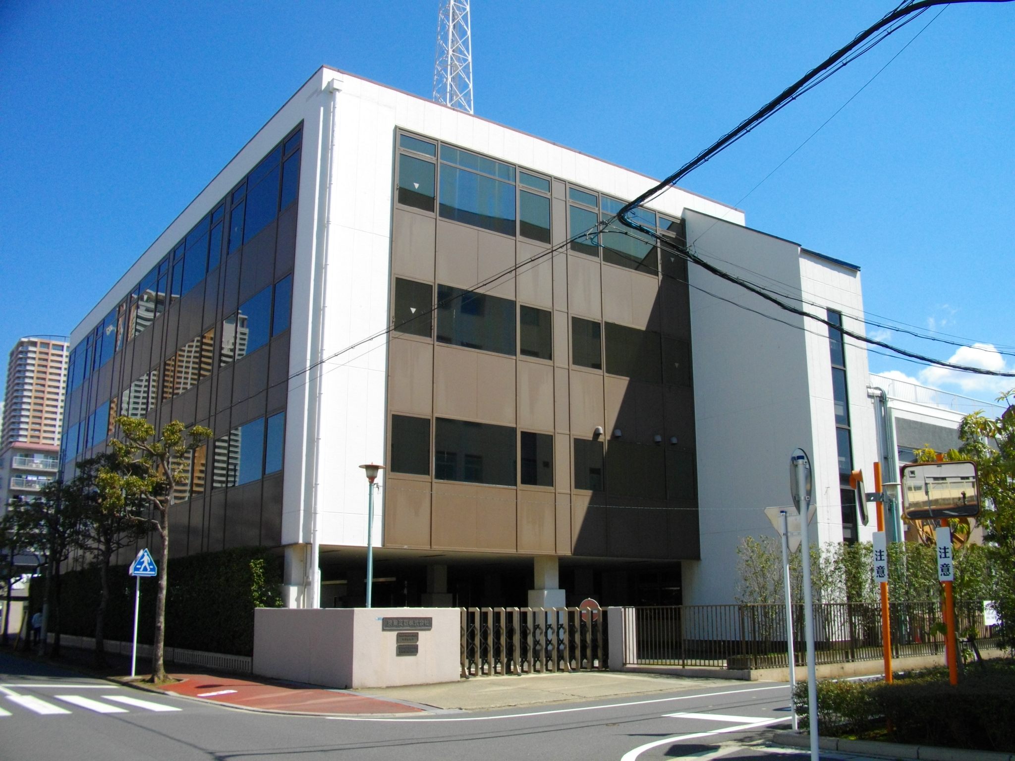 Keiyo Gas Head Office